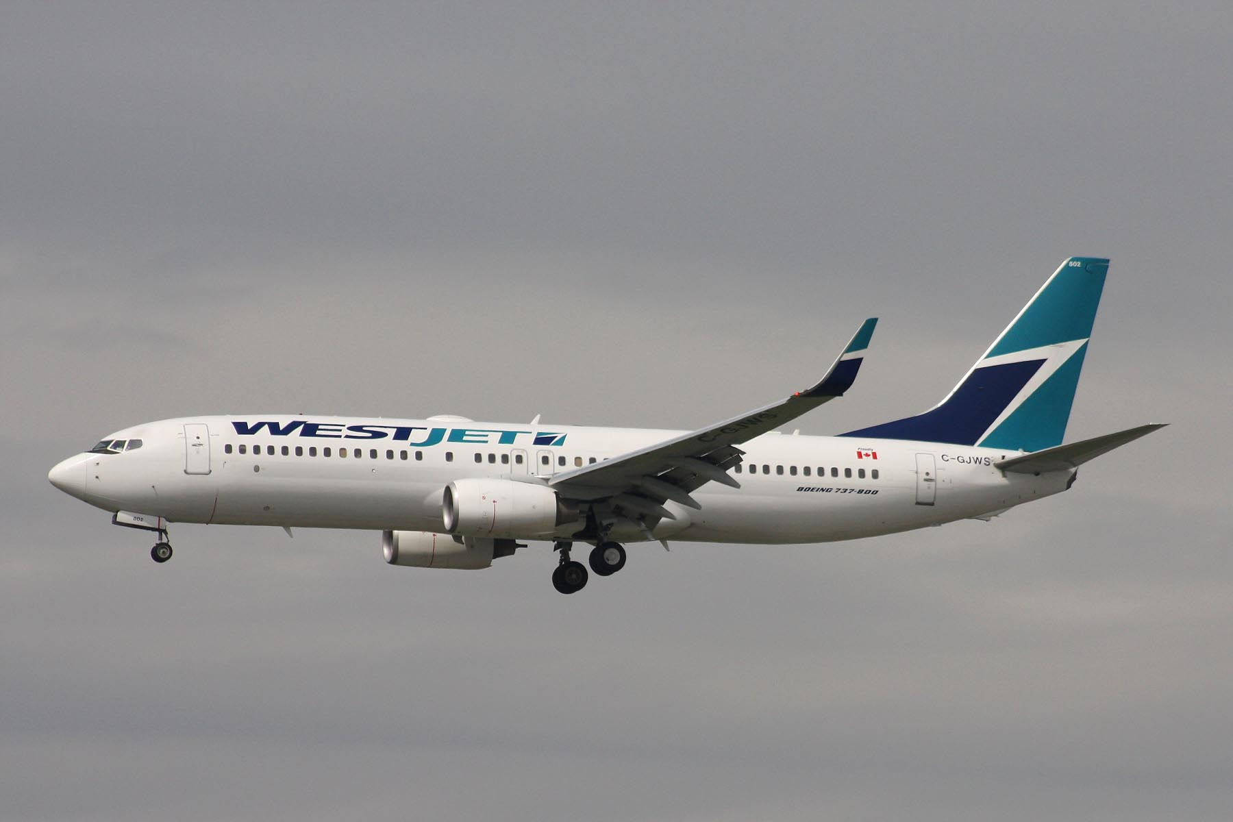 A picture of an airplane (name of it is on the file name).